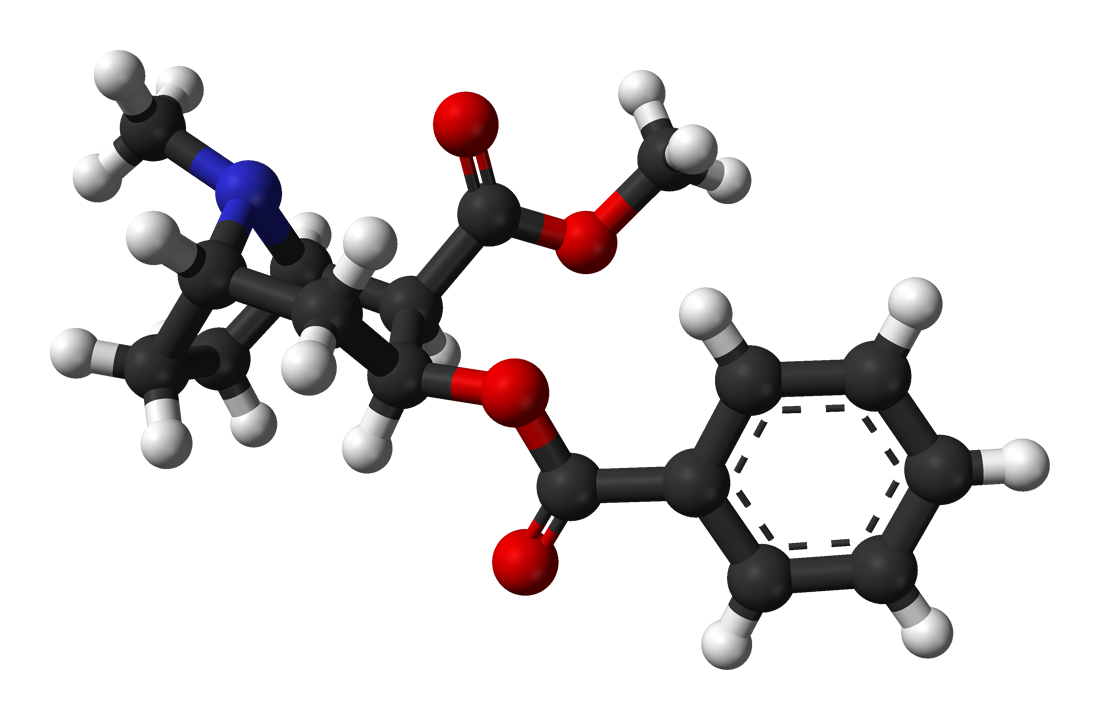 Ball-and-stick model of the cocaine molecule, C17H21NO4. Structural data from M. R. Wood, T. A. Brettell and R. A. Lalancette (February 2007). "The gold(III) tetrachloride salt of L-cocaine". Acta Cryst. 'C63' (2): m33-m35. Image generated in Accelrys DS Visualizer.